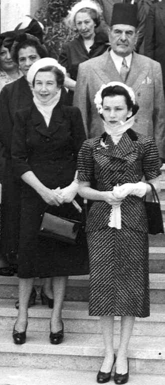 Princess Fawzia of Egypt (right), former wife of Mohammad Reza Pahlavi, Shah of Iran. The woman on the left is Siadat Raafat, granddaughter of Amin Chamsi Pasha.